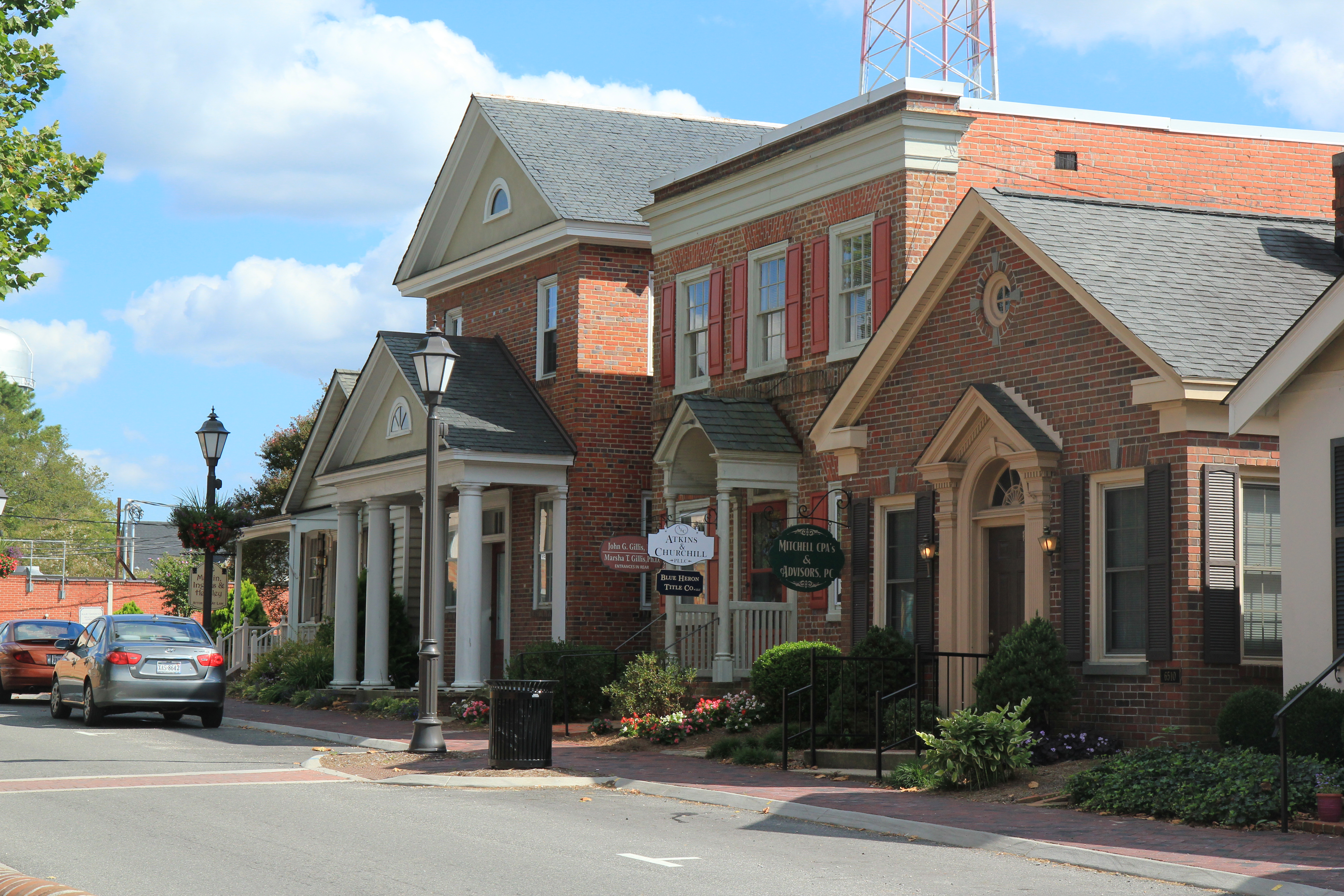 Scenery around the courthouse circle of Gloucester, Virginia.